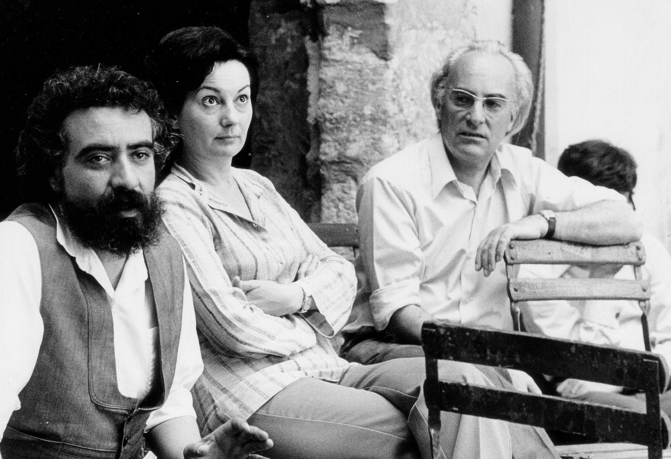 French photographers (from left): Georges Tourdjman, Hélène Théret, Jean_Dieuzaide during a talk in Arles, Southern France, in 1975. The photograph was taken during '6èmes Rencontres Internationales de la Photographie', Arles, 1975.